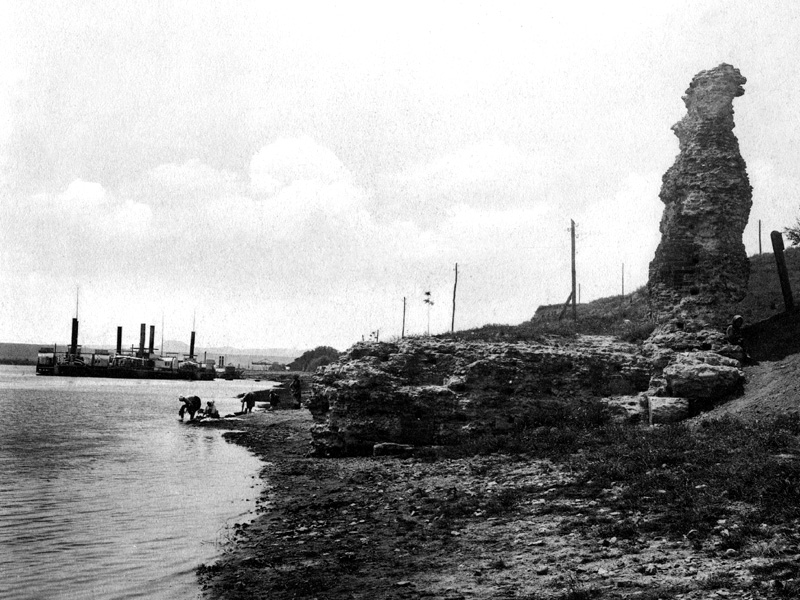 The ruins of Trajan's Bridge at the beginning of the 20th century, Romania.